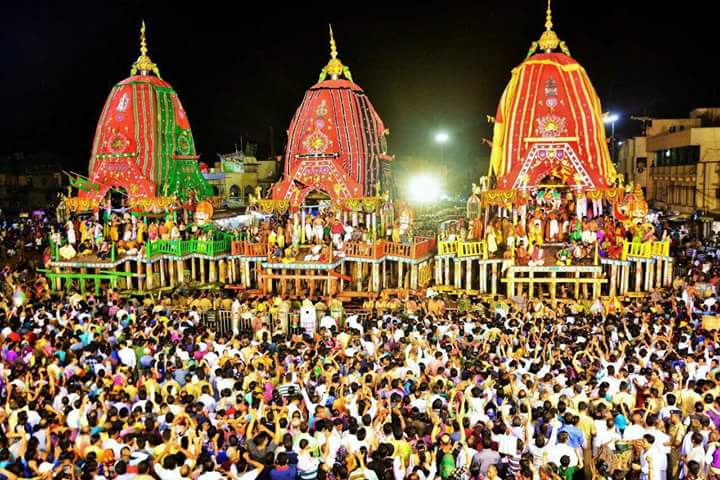 This pic is taken at the night during the rath yatra of Lord Jagannatha in Puri.